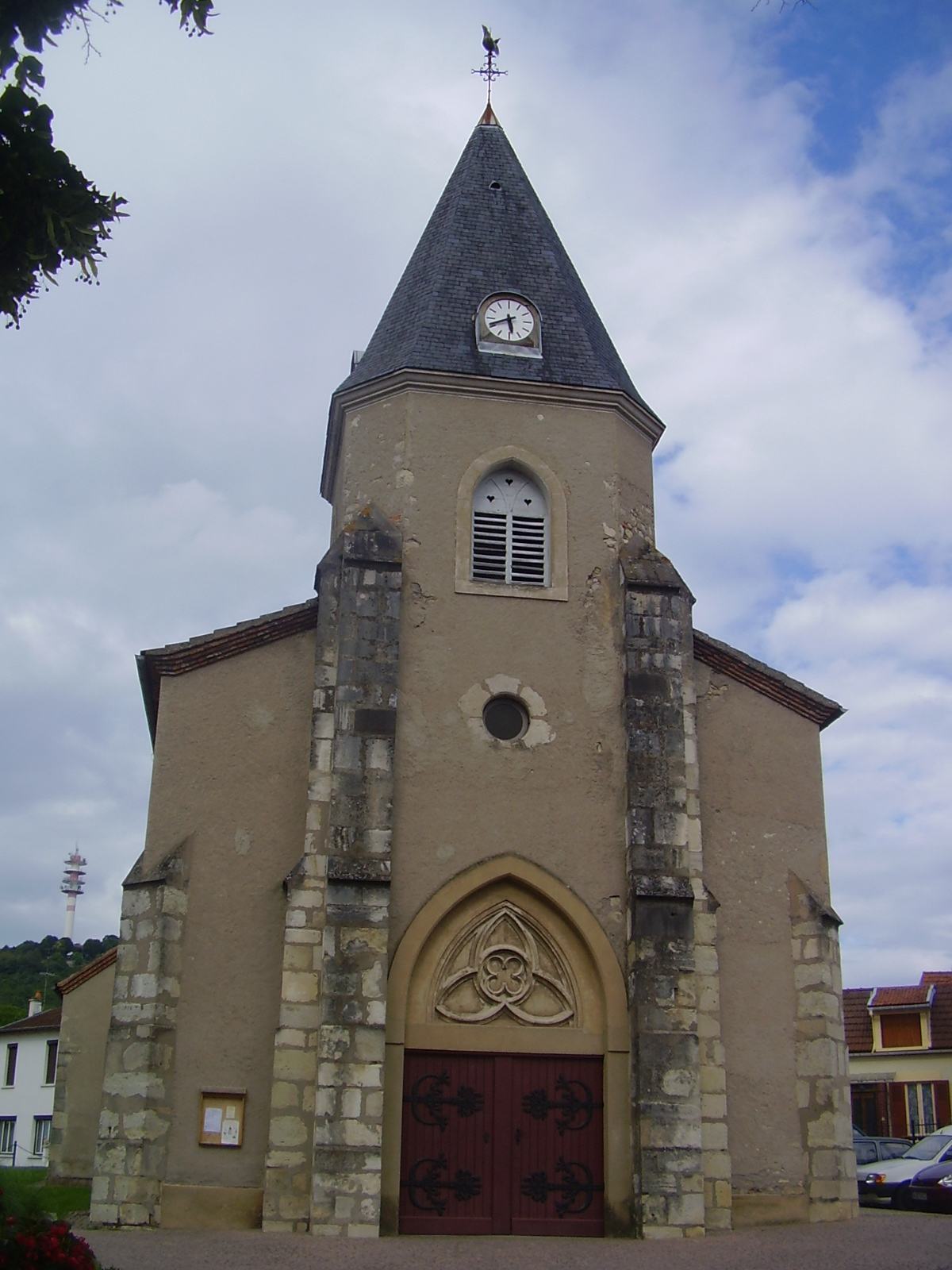 Church of Abrest, Allier, Auvergne, France